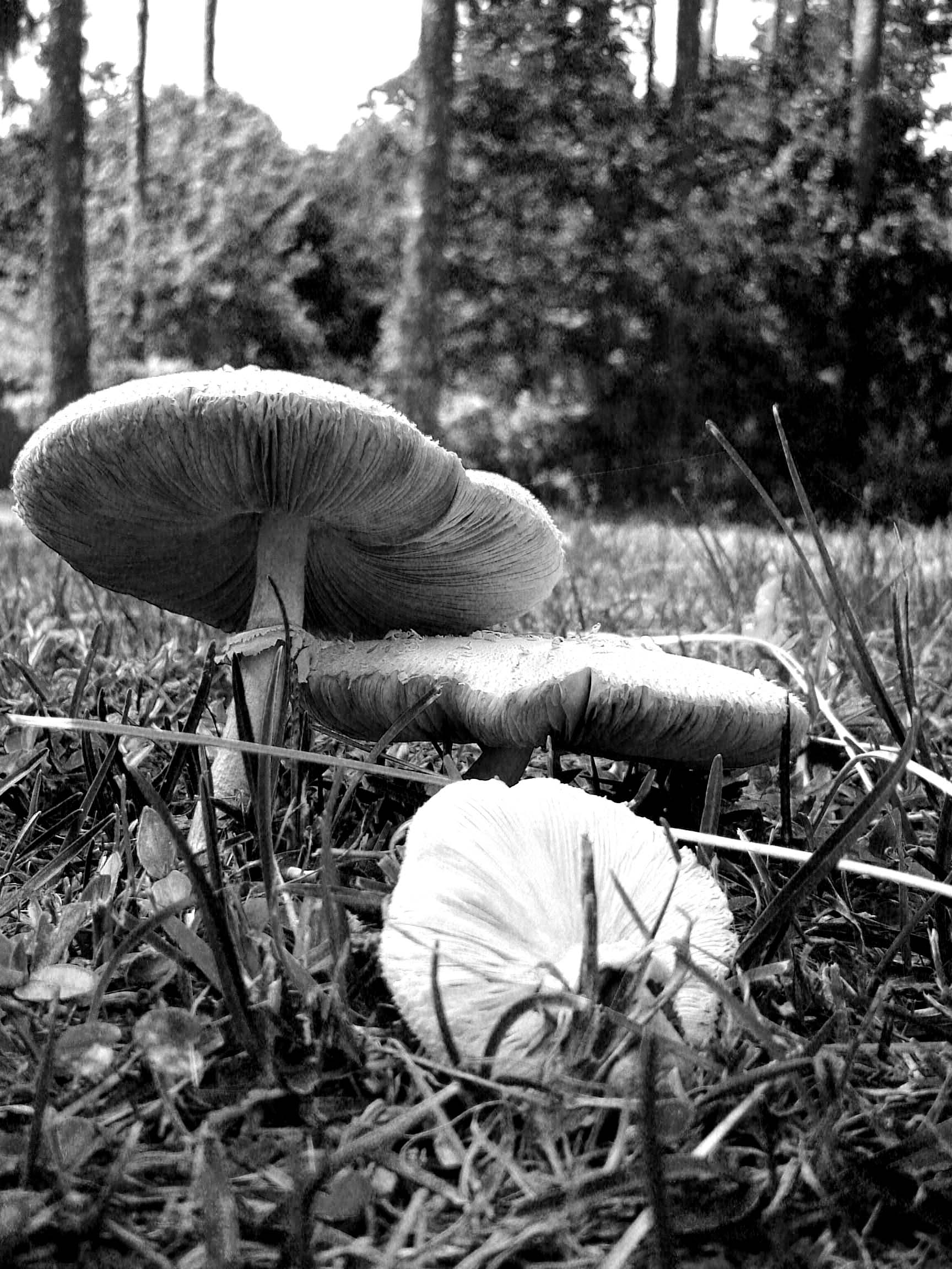 Mushrooms in Osceola National Forest